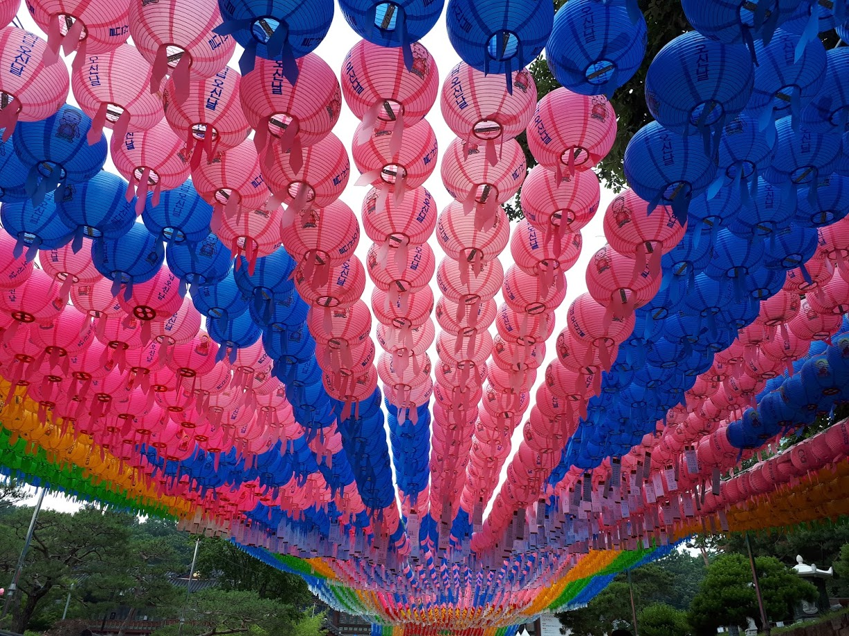 Lanterns Bongeunsa Temple